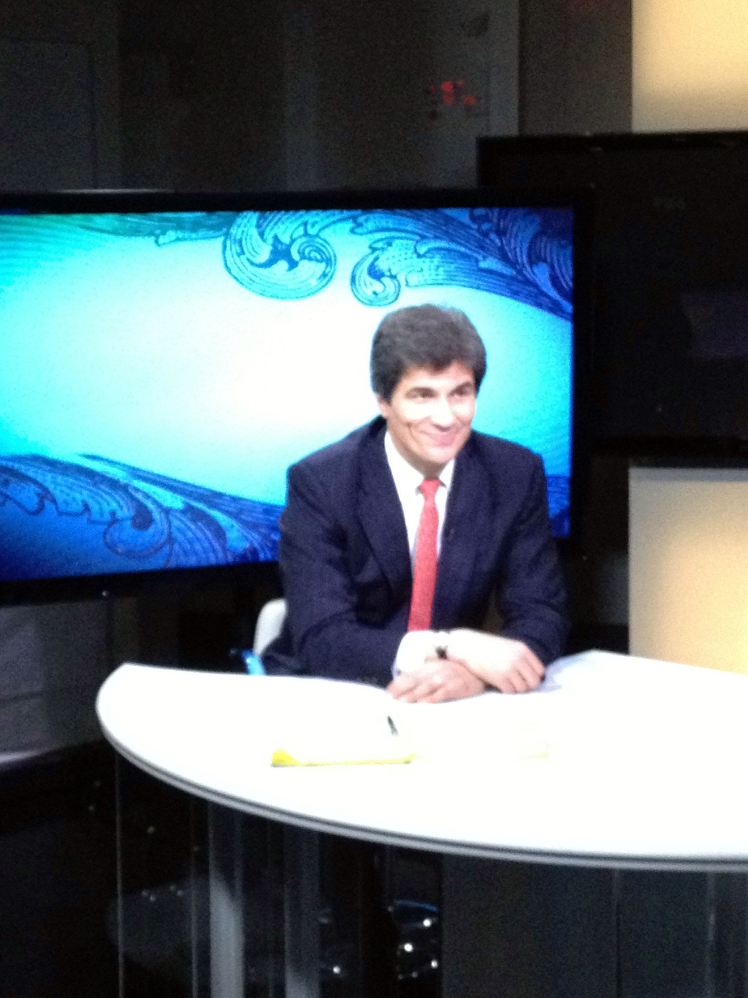 Assistant Secretary of State for Economic and Business Affairs Jose W. Fernandez prepares for his interview with CNN en Español out of the CNN studio in Miami, Florida, February 6, 2013. [State Department photo/ Public Domain]